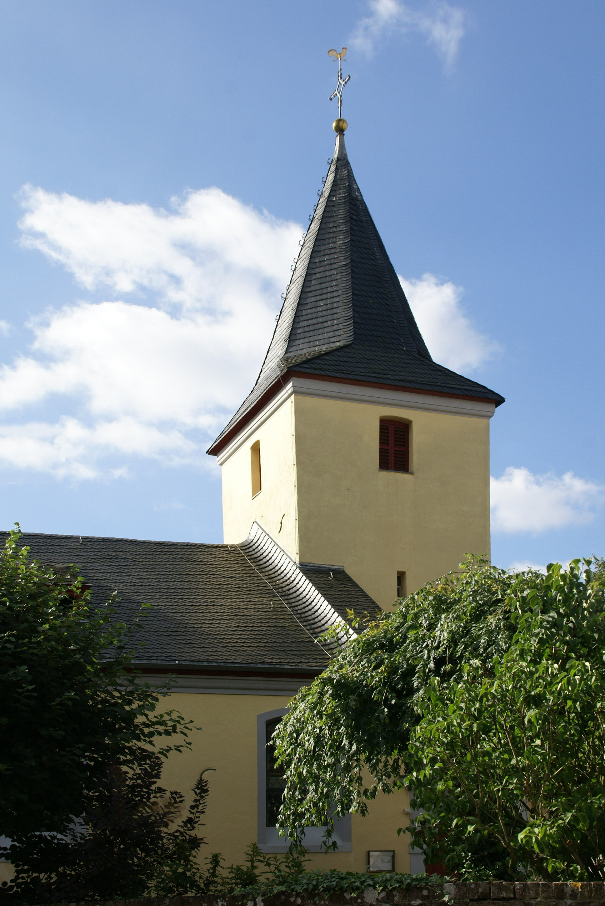 Protestant church in Buschhoven